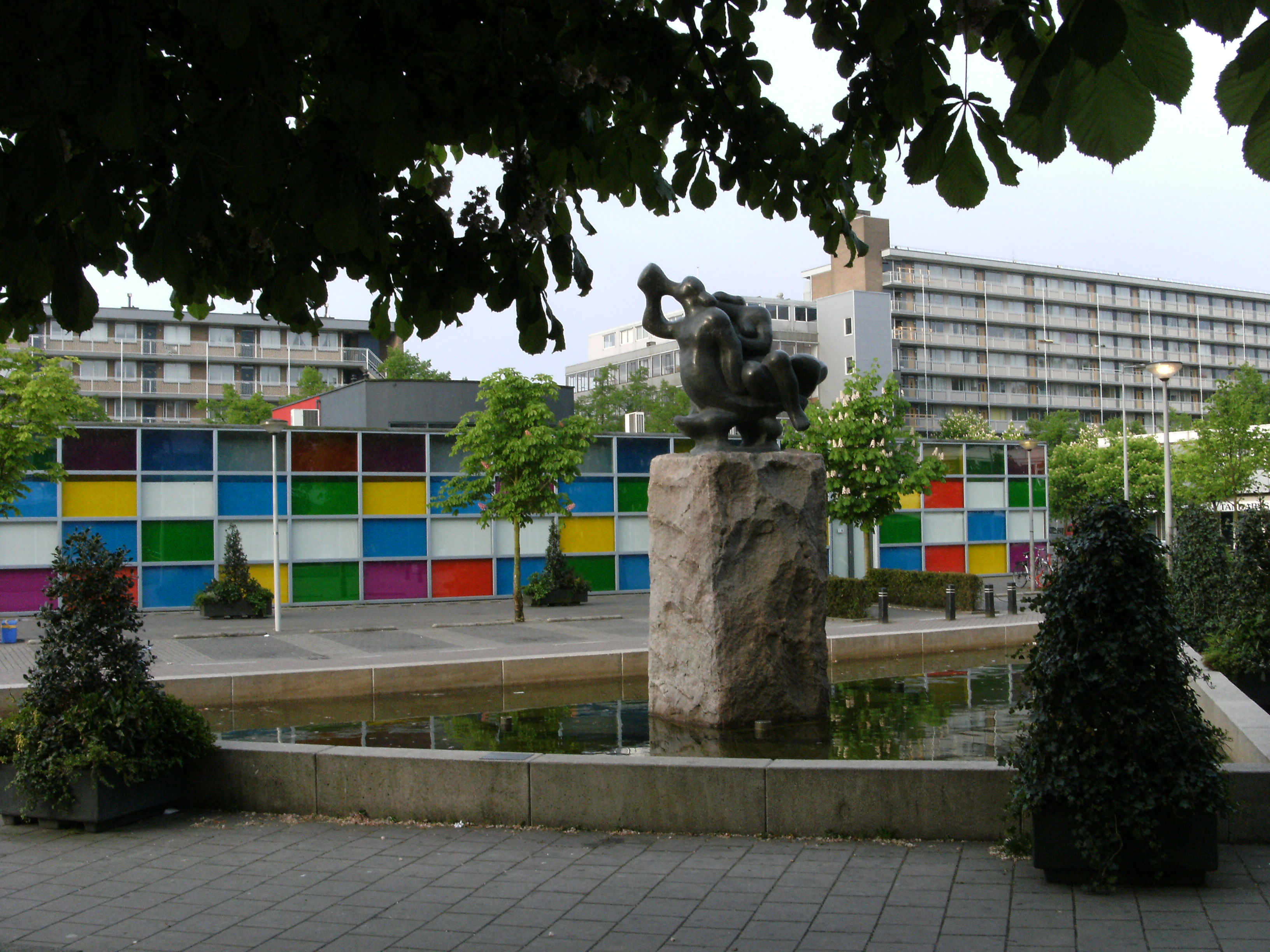 August Allebé square in early morning with sculpture Nereide op Triton (1964) by Nic Jonk in Amsterdam/The Netherlands.